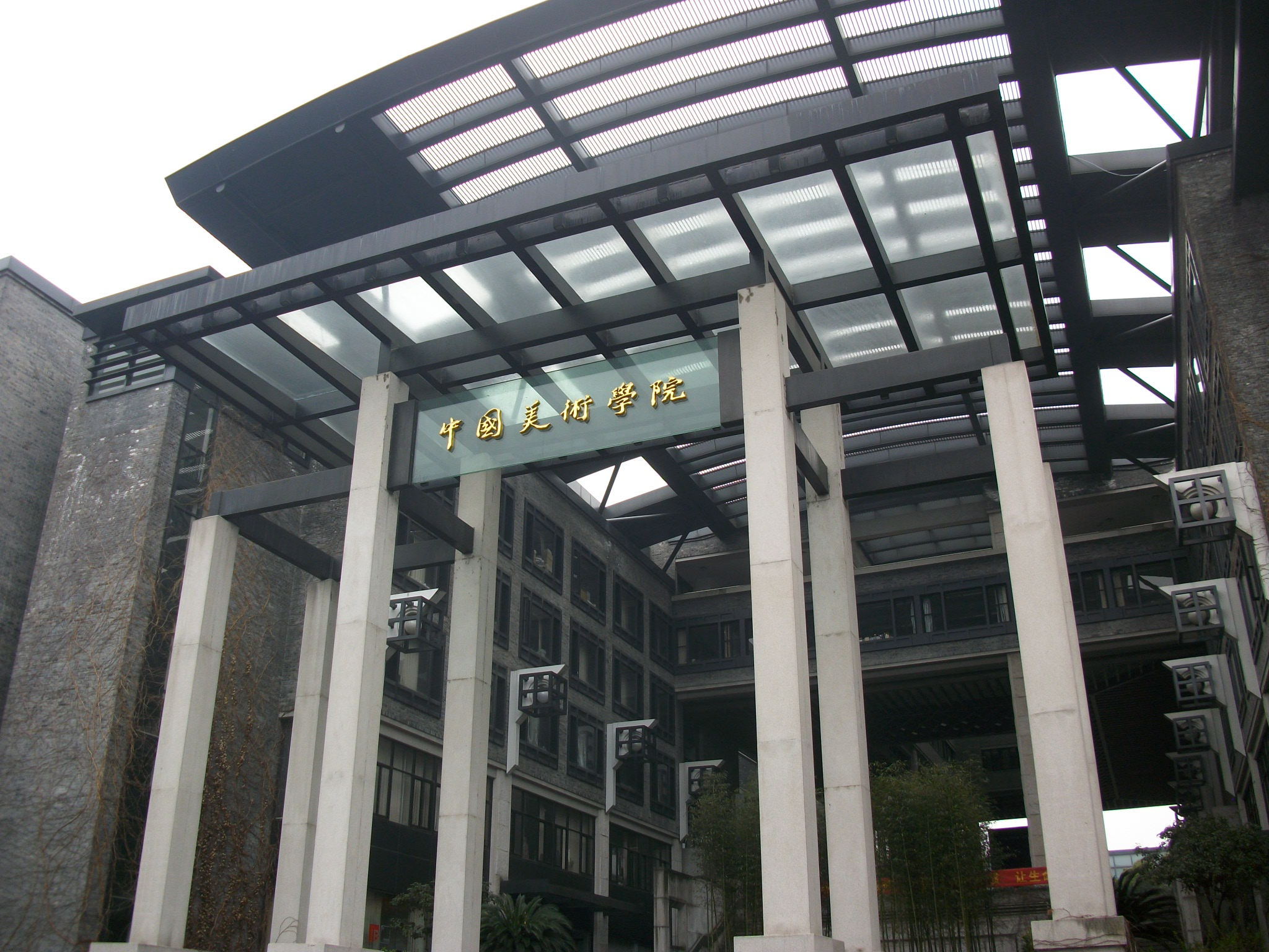 The Gate of China Academy of Art in Hangzhou. 中文（中国大陆）: 位于杭州的中国美术学院正门。